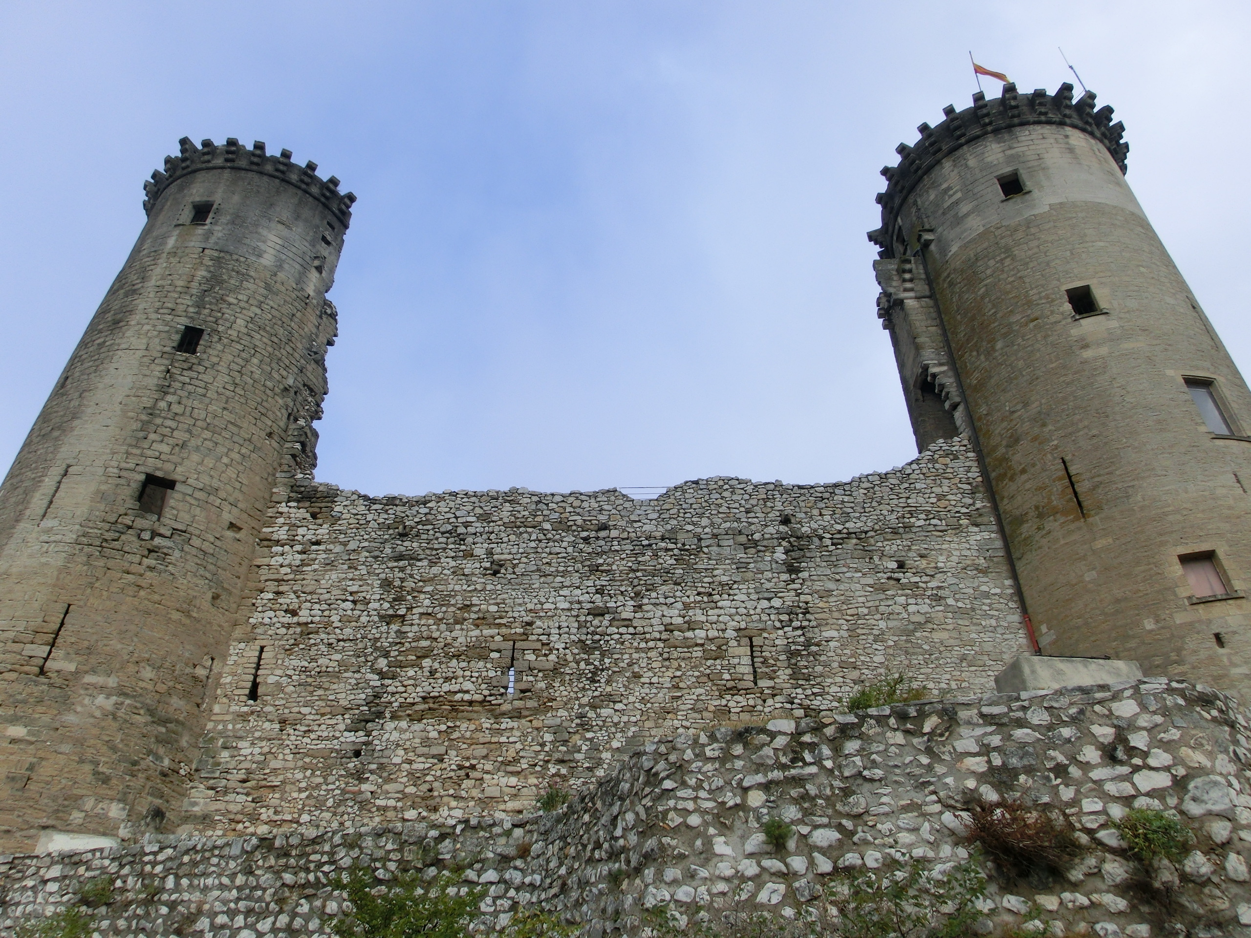 View from the West of the castle of Châteaurenard